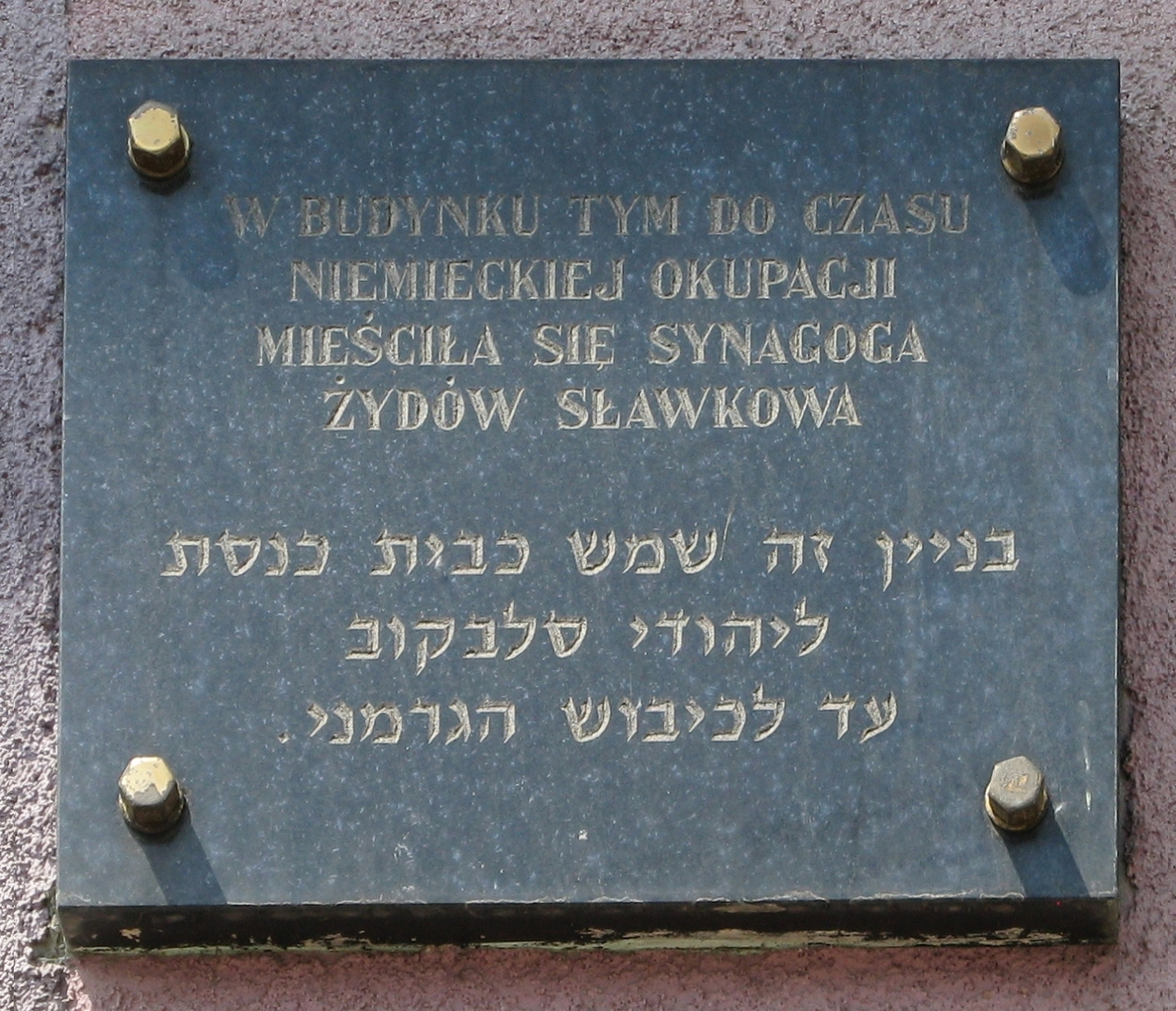 The plaque on the wall of synagogue in Sławków.